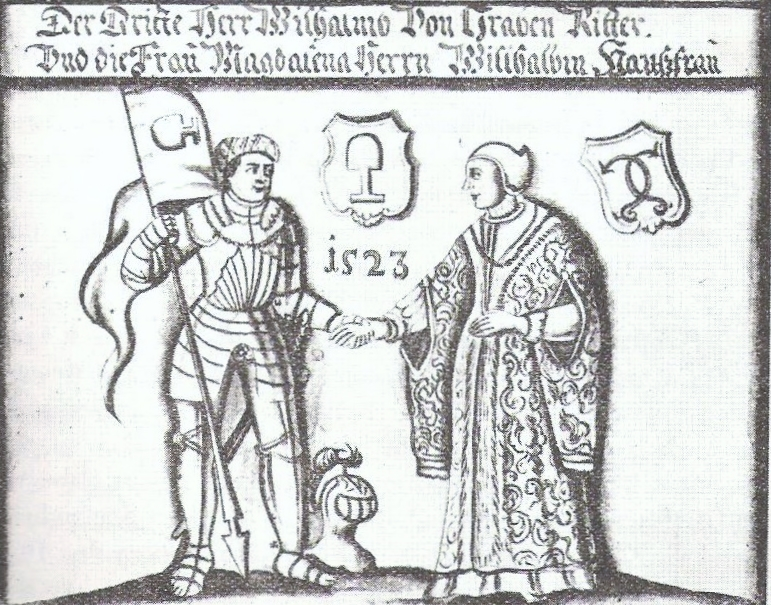 Wilhelm von Grabe and his wife Magdalena von Stubenberg